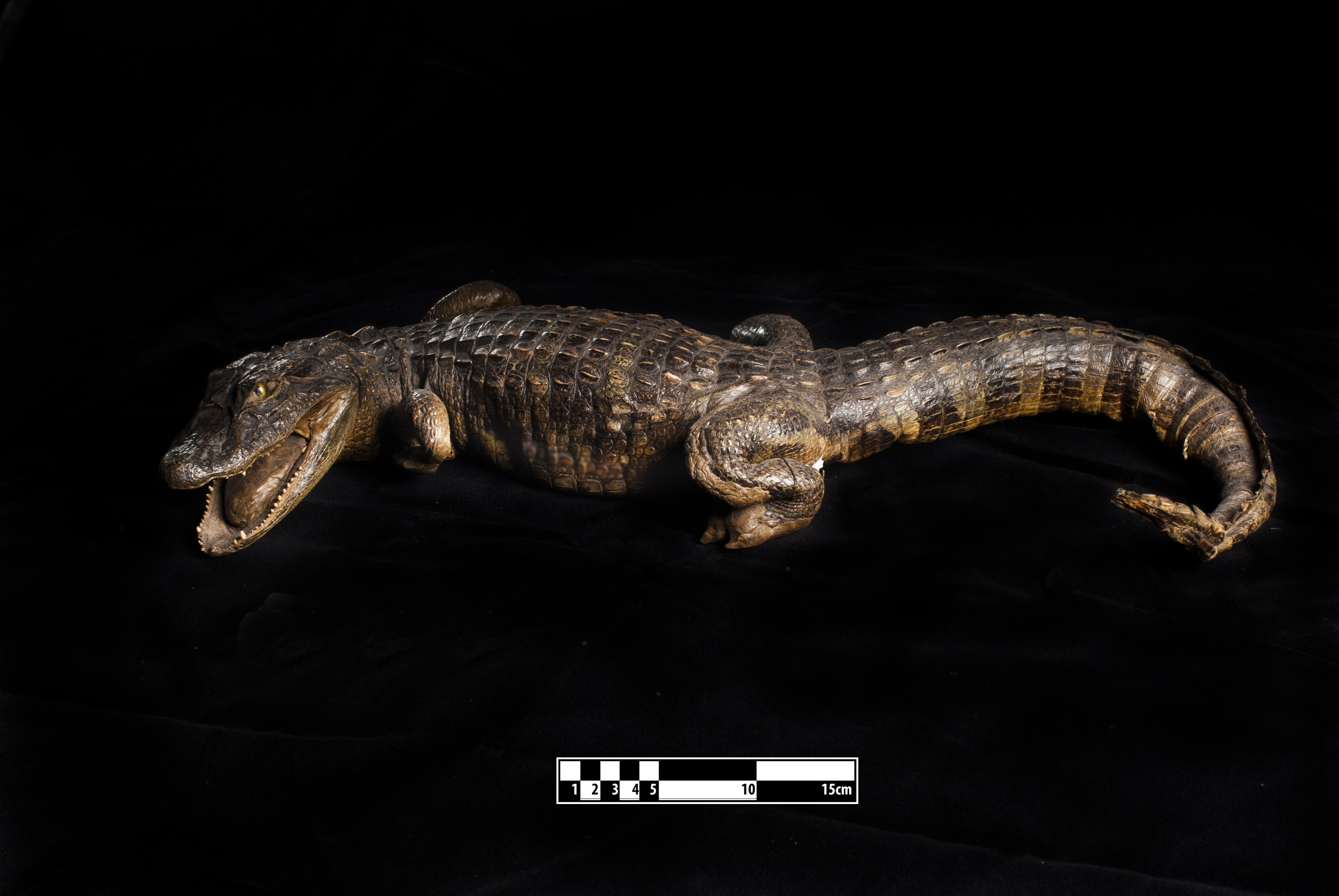 Wetland alligator (Caiman yacare). Taxidermy specimen of an alligator on display at the Museum of Veterinary Anatomy FMVZ USP. This file was published as the result of a partnership between the Museum of Veterinary Anatomy FMVZ USP, the RIDC NeuroMat and the Wikimedia Community User Group Brasil. This GLAM project is reported. Photography: Museum of Veterinary Anatomy FMVZ USP. Author: Wagner Souza e Silva.